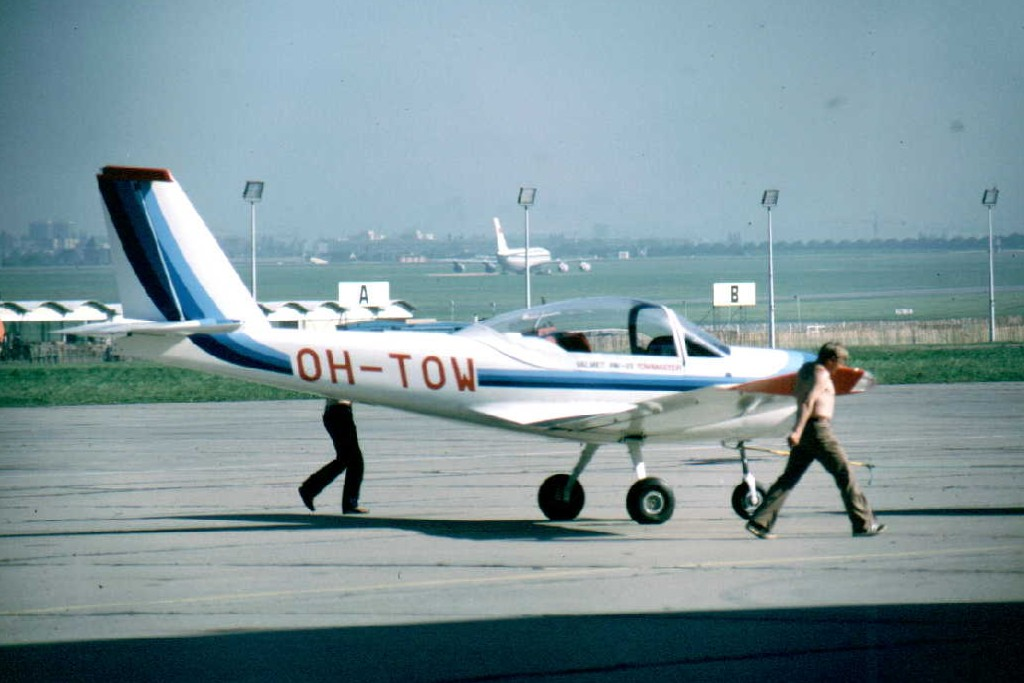 Valmet Pik-23 Towmaster at Paris Air Show Le Bourget